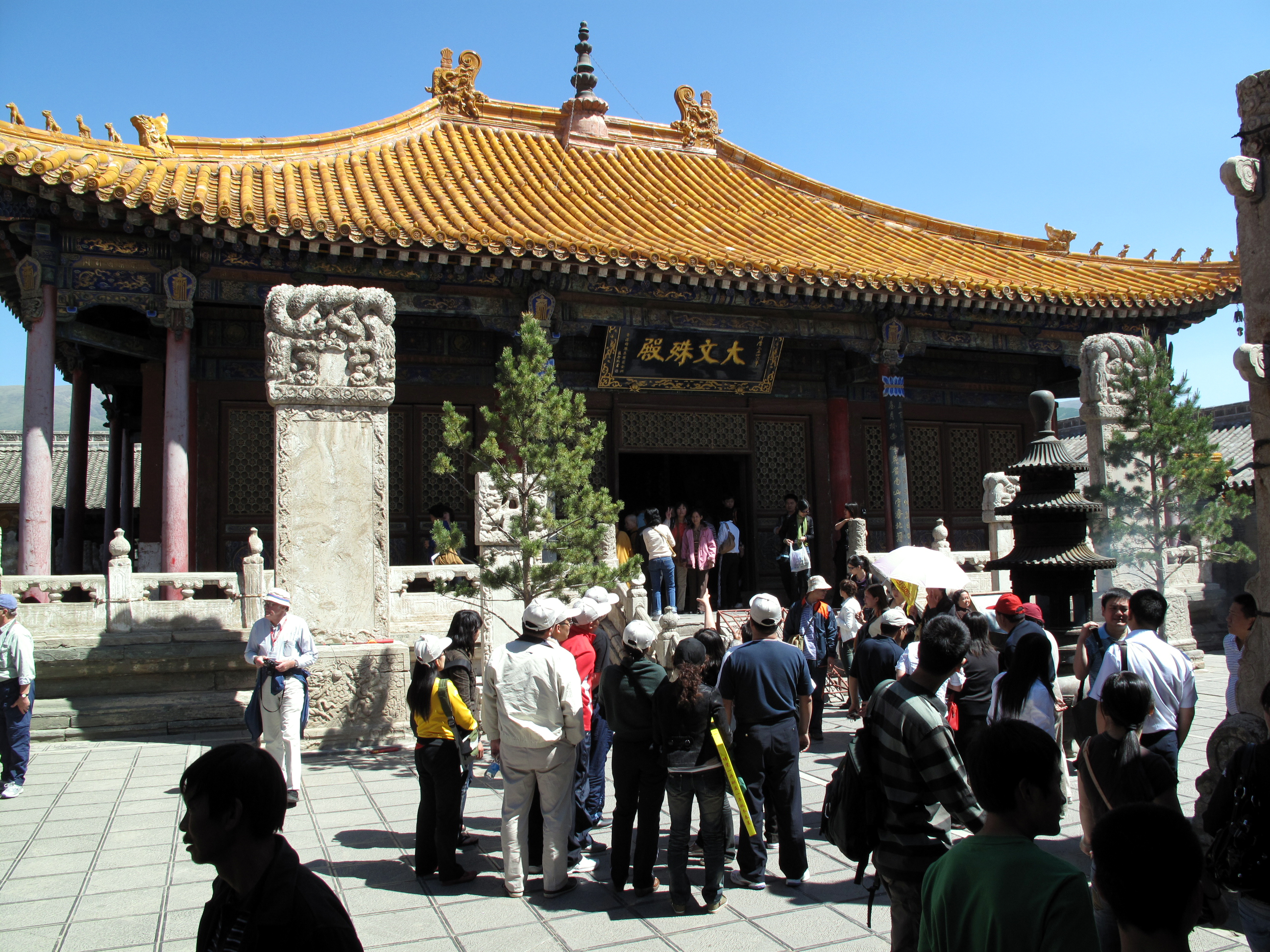 Pusading Si. Wutai Shan, Shanxi Mount Wutai, originally sacred to Daoism, became one of the earliest places in China to embrace the new Buddhist faith. According to the Avatamsaka Sutra, an Indian monk had a vision of Bodhisattva Manjushri here in the first century AD, and the mountain has been regarded ever since as the abode of Manjushri. By the Northern Wei period, the mountain's temples were important enough to be represented on a mural at Dunhuang. Pusading Si was especially favored by emperors Kangxi and Qianlong, who stayed here when making pilgrimages to Wutai. At that time, the ancient temple was rebuilt in Imperial Qing style, allowed the favor of Imperial yellow roof tiles, and put in charge of all other temples on the mountain. Its present buildings and layout therefore date to the Qing Dynasty.